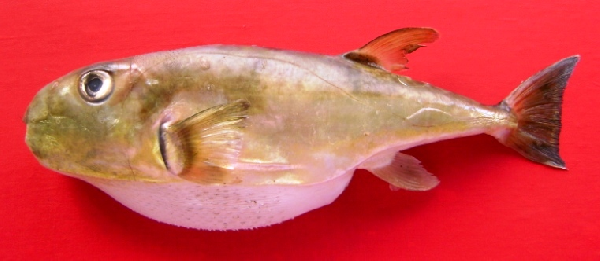 Lagocephalus spadiceus collected in Pakistan.